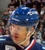 Craig MacDonald, Ice hockey player, forward